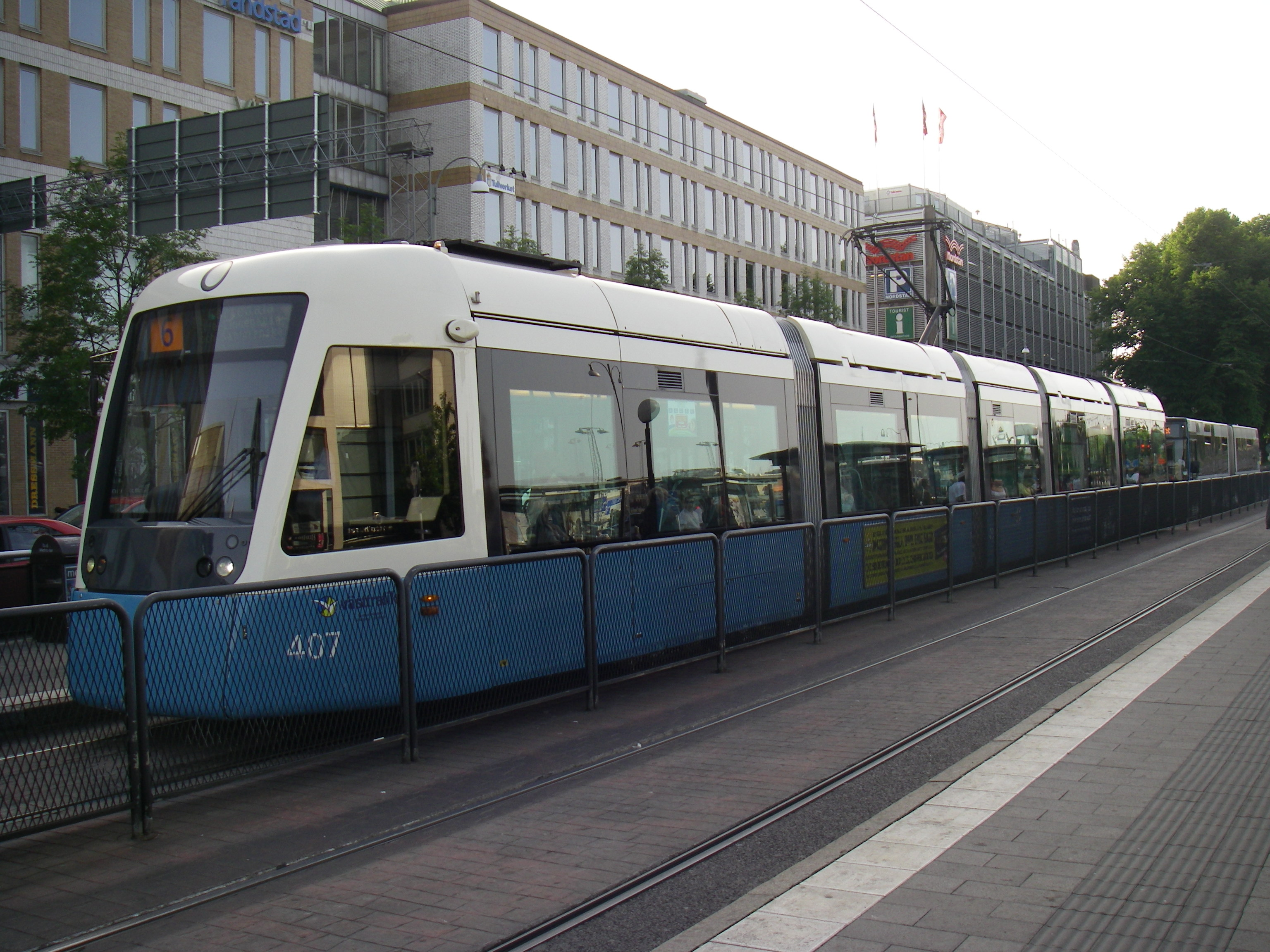 M32 tram in Gothenburg